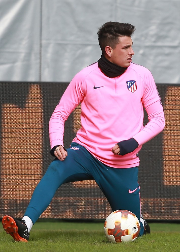 José María Giménez